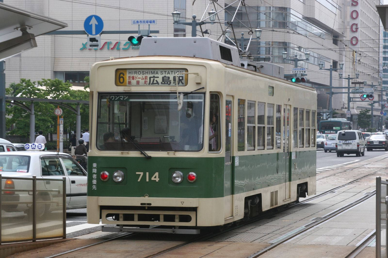 Hiroden streetcar, line #6 which runs from Hiroshima Station to Eba